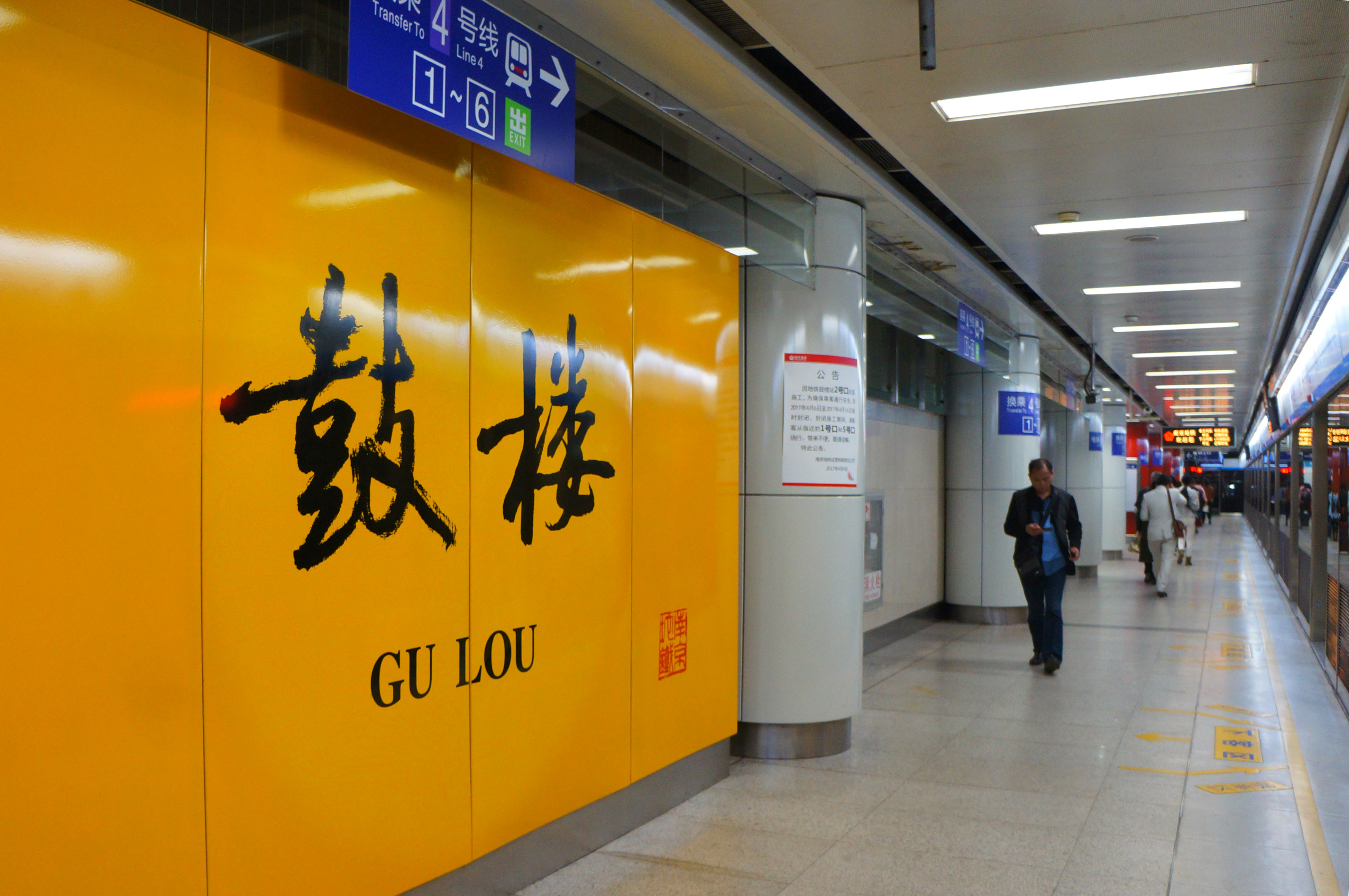 201704 Gulou Station L1 Nameboard